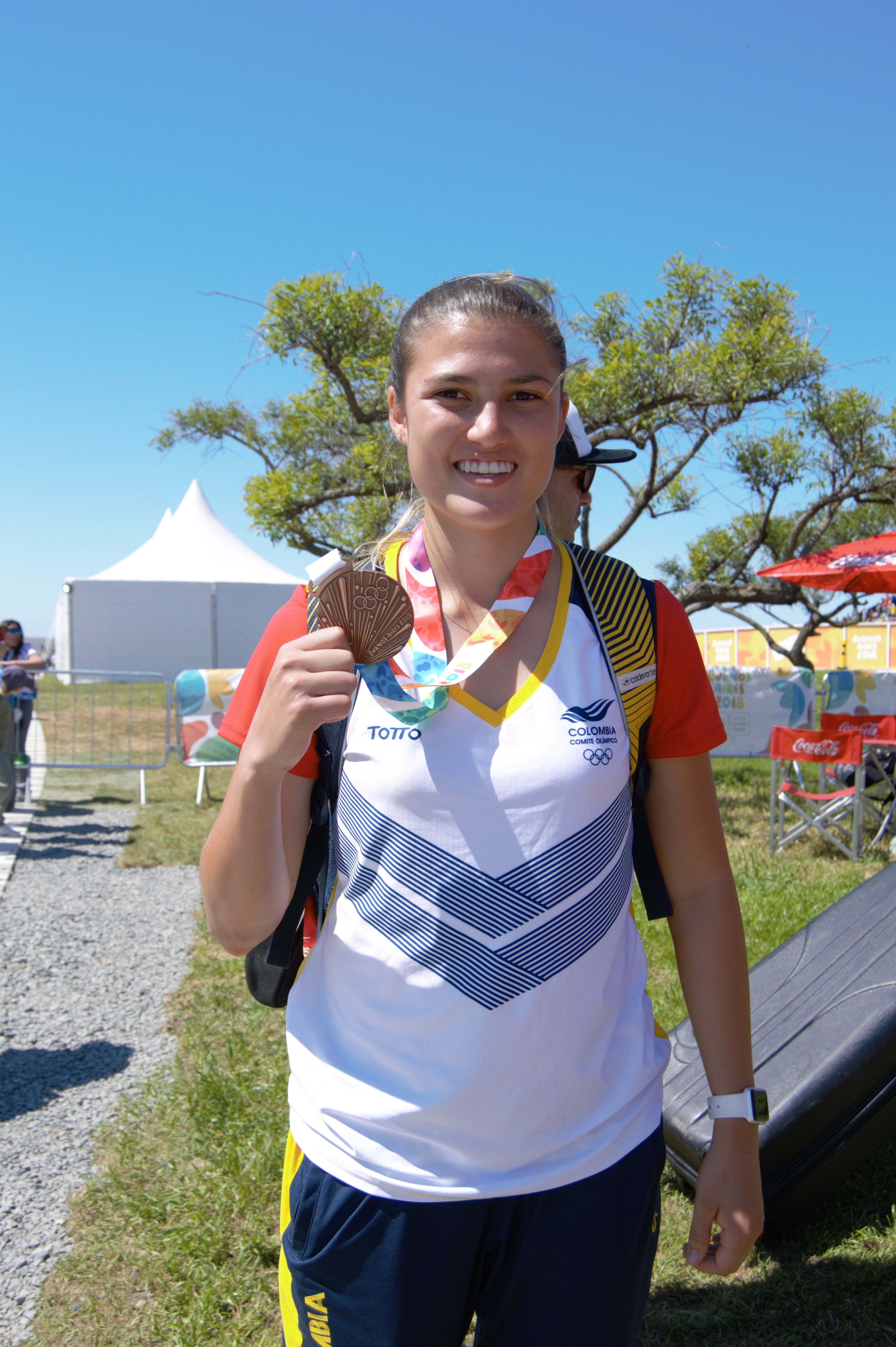 Gabriela Bolle Carrillo with his bronze medal of the 2018 Summer Youth Olympics.